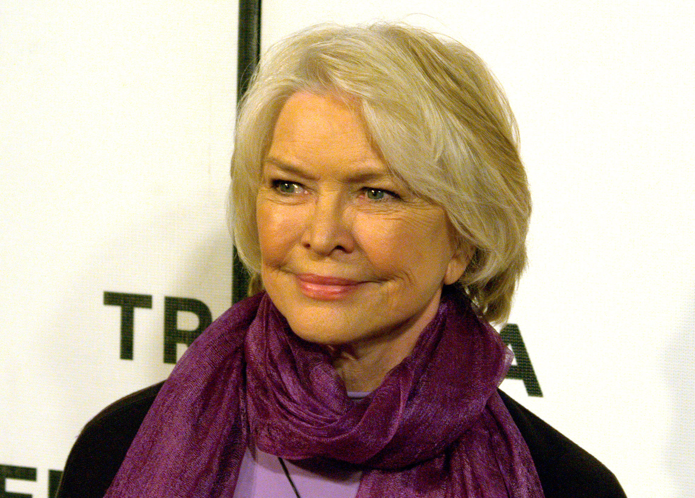 Ellen Burstyn at the 2009 Tribeca Film Festival premiere of Poliwood.